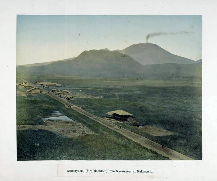 Digital ID: 110080. Kusakabe, Kimbei -- Photographer. 188-?-189-? Notes: Number in Negative, 924 Source: Japan. / Kimbei Kusakabe. ( Repository: The New York Public Library. Photography Collection, Miriam and Ira D. Wallach Division of Art, Prints and Photographs. See more information about and others at Persistent URL: Rights Info: No known copyright restrictions; may be subject to third party rights (for more information